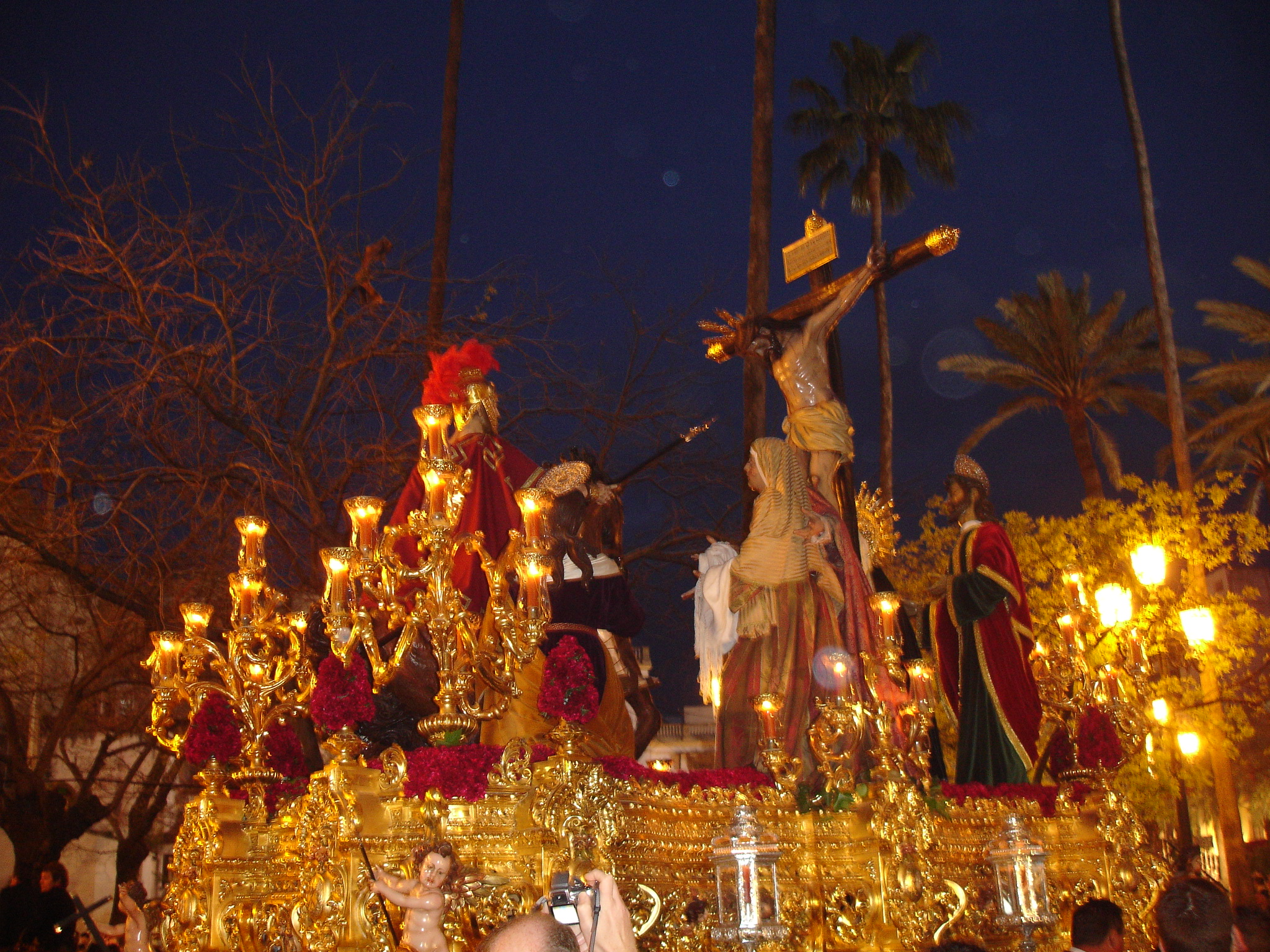 La Lanzada in Alameda Cristina at Jerez de la Frontera, Andalusia (Spain)